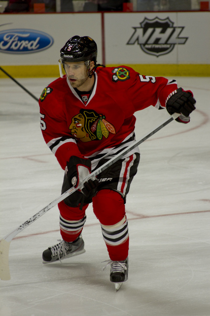 © Grace Wiley Photography